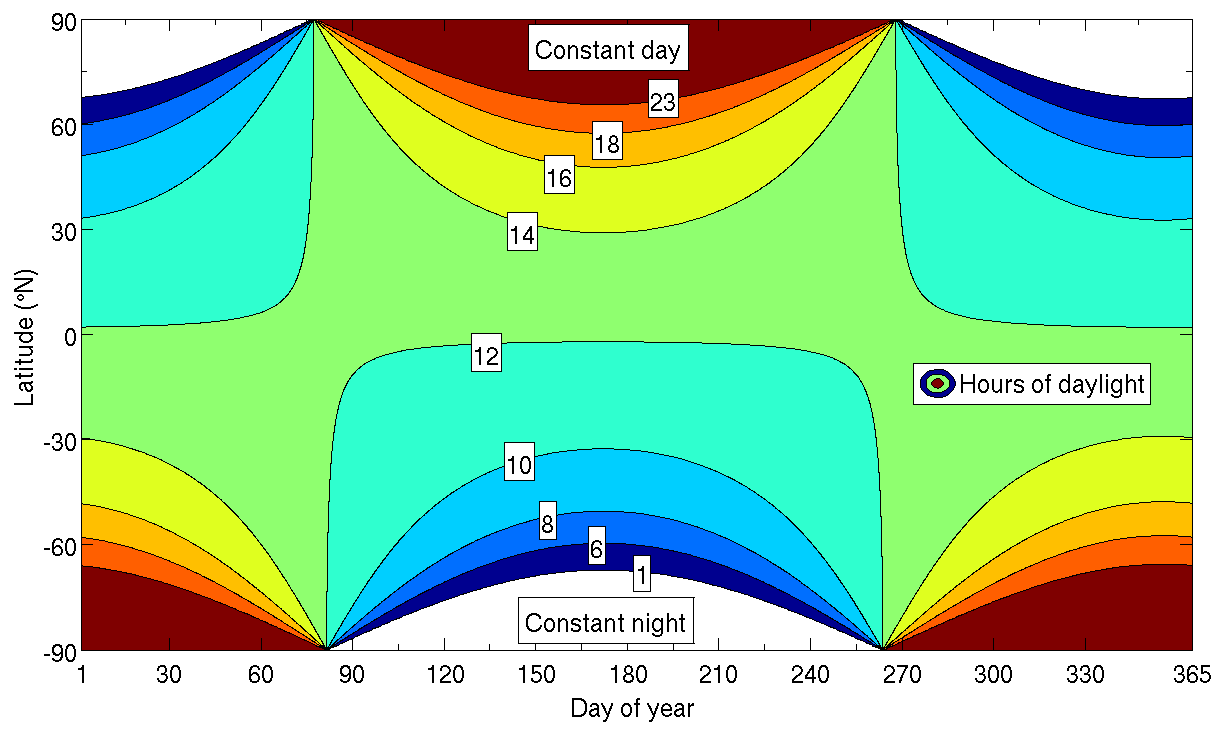 A contour plot of the hours of daylight as a function of latitude and day of the year, using the most accurate models described in Sunrise equation.